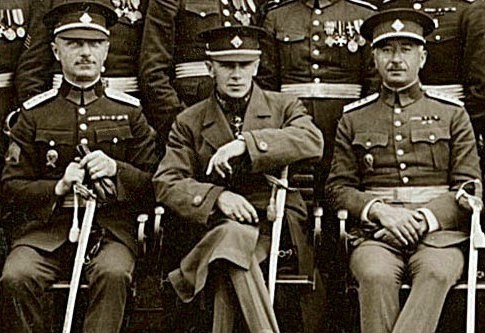 Gen. S. Vojcechovský (seated center) at a general meeting of veterans of the Czechoslovak Legion in 1927. Left - Colonel Bedrich Homola (executed January 5, 1943 in Berlin by beheading), right - Colonel Oleg Svátek (shot by the Gestapo October 1, 1941 in the barracks Ruzyne, Prague)